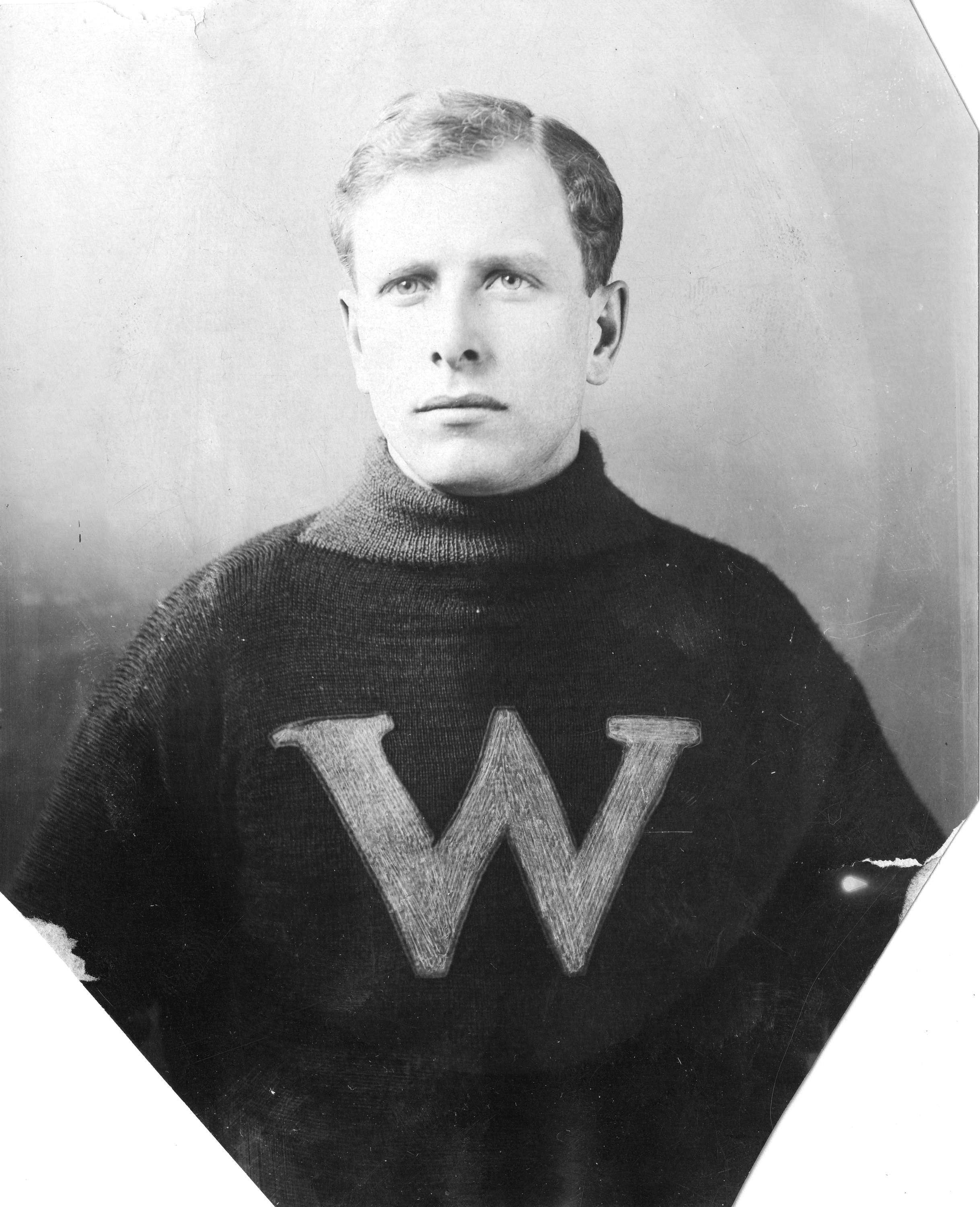 Photograph of ice hockey player Ran McDonald, New Westminster Hockey Team Champions P.C.H.A.